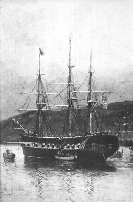 Detail of 19th century painting, The USS Cyane Taking Possession of San Diego Old Town July 1846, by Carlton T. Chapman (1860-1925).